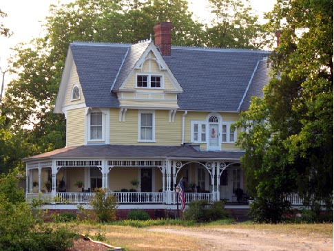 A photo of the Person-McGhee Farm near Franklinton, North Carolina.